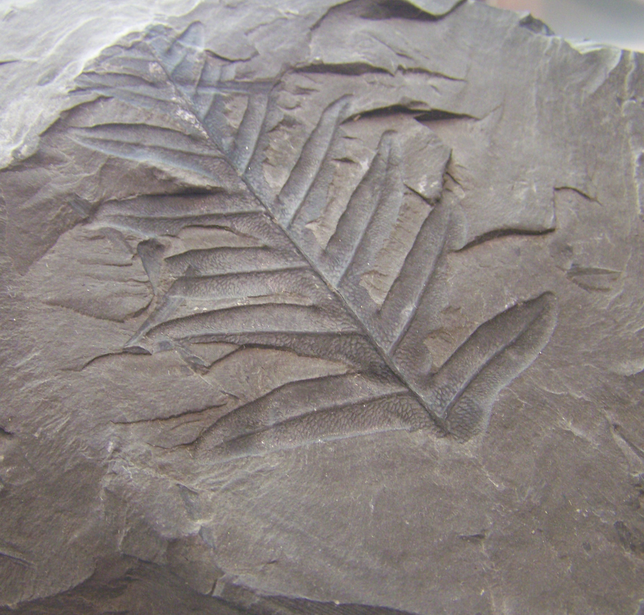 Fossil leaf of plant species Lonchopteris rugosa, Upper Carboniferous. Fossil is ca. 6 cm long. Collection of the Universiteit Utrecht